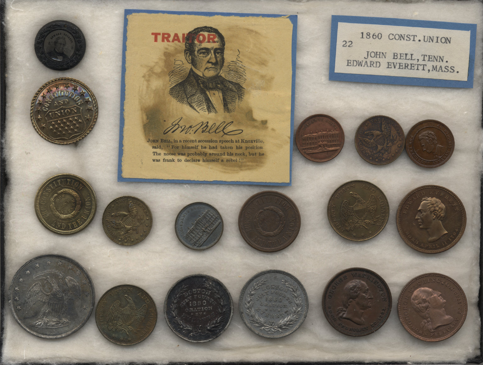 Collection: Cornell University Collection of Political Americana, Cornell University Library Repository: Susan H. Douglas Political Americana Collection, #2214 Rare & Manuscript Collections, Cornell University Library, Cornell University Title: Bell-Everett Campaign Items, ca. 1860 Political Party: Republican Election Year: 1860 Date Made: ca. 1860 Measurement: Mount: 6 5/8 x 8 5/8 in.; 16.8275 x 21.9075 cm Classification: Ephemera Persistent URI: There are no known U.S. copyright restrictions on this image. The digital file is owned by the Cornell University Library which is making it freely available with the request that, when possible, the Library be credited as its source.